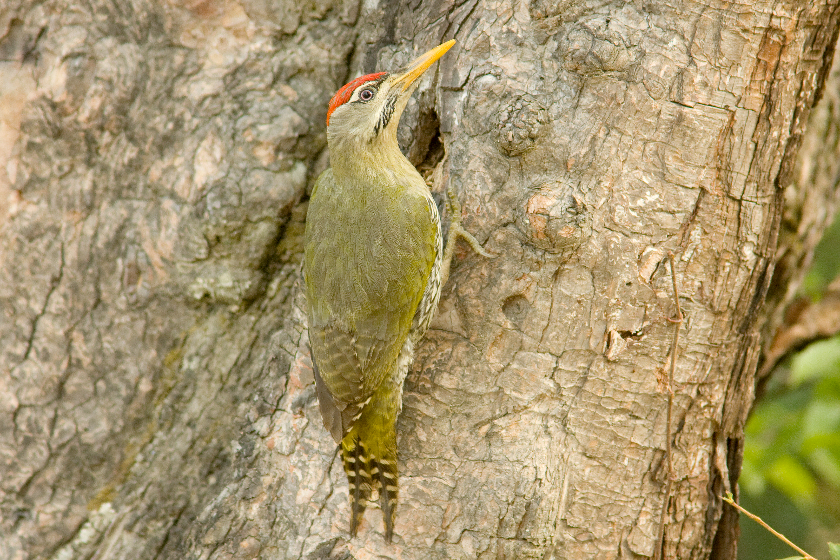 Scaly-bellied Woodpecker at Mukteshwar, Uttarakhand, India